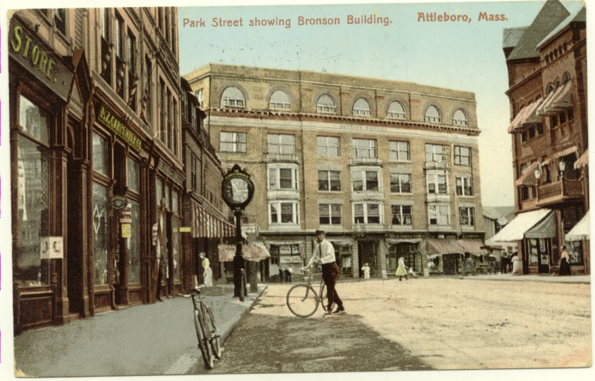 Postcard: Downtown Attleboro, Massachusetts, postmarked 1909 Caption: "Park Street showing Bronson Building. Attleboro, Mass." Description (from Web site): "postmarked Attleboro, Mass. 1909 ( Park Street showing Bronson Bldg., Carpenter Co. Store on the left )"